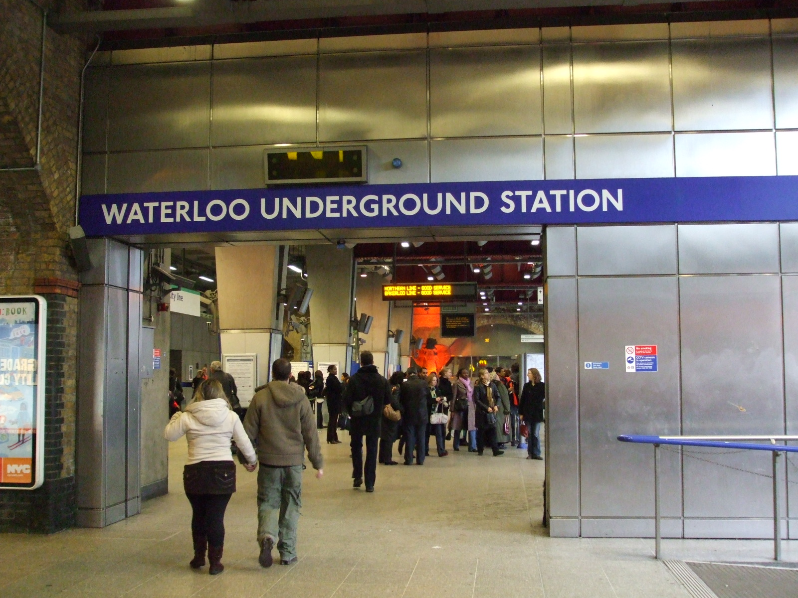 Entrance to Waterloo tube station from the eastern side of Waterloo railway station